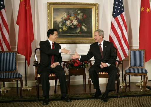 Hu Jintao with George W. Bush.